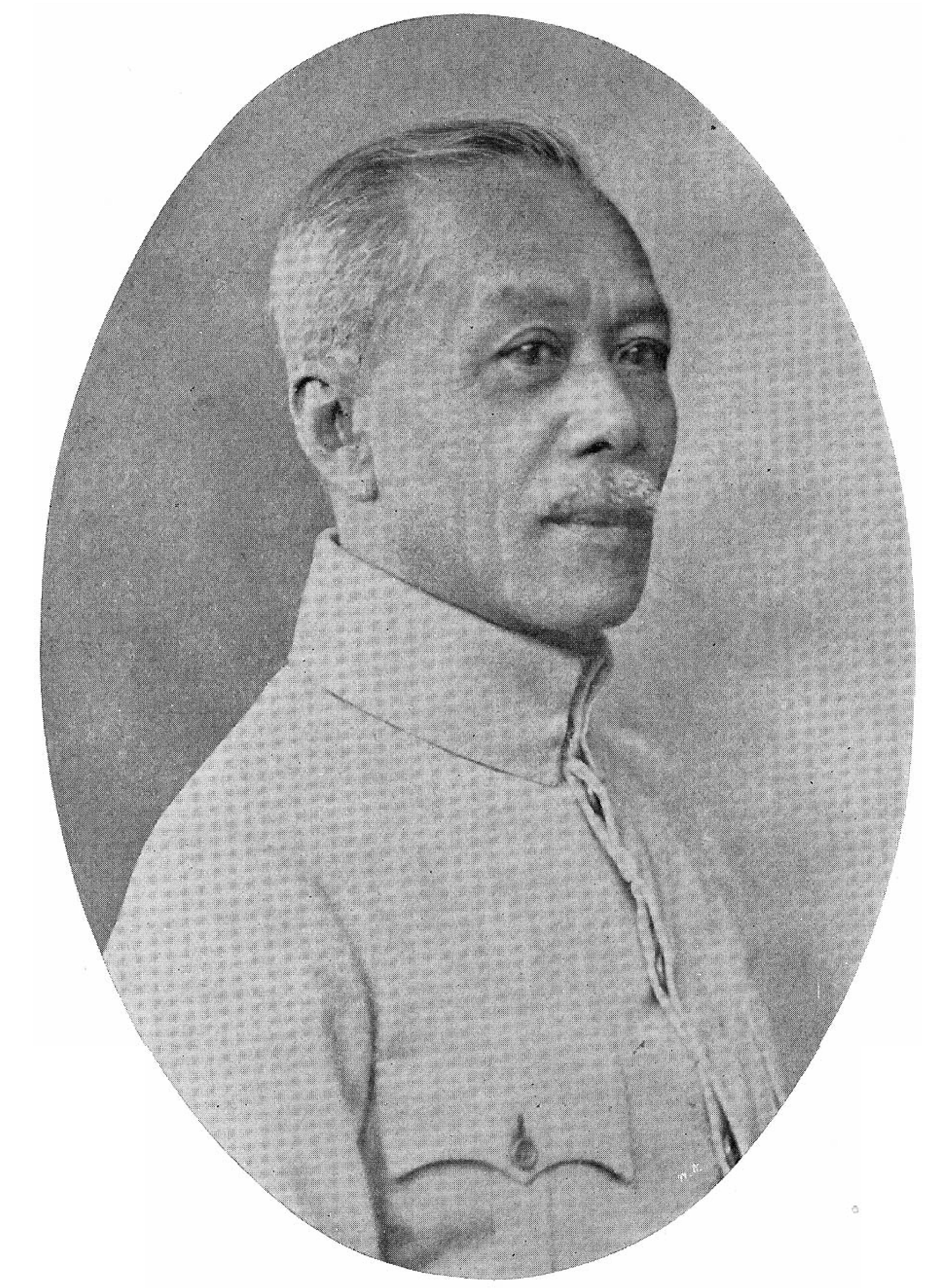 Major Mom Ratchawong Suwaphan Sanitwong (November 12, 1863-January 21, 1926), a Thai military general, public officer, author, engineer, etc.